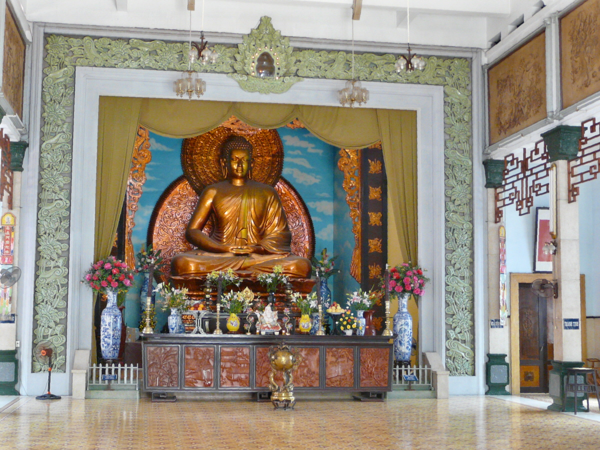 This photo was taken in the main hallway of Xa Loi Pagoda, Ho Chi Minh City. The shrine is dominated by the large statue of Gautama Buddha made in Bien Hoa.